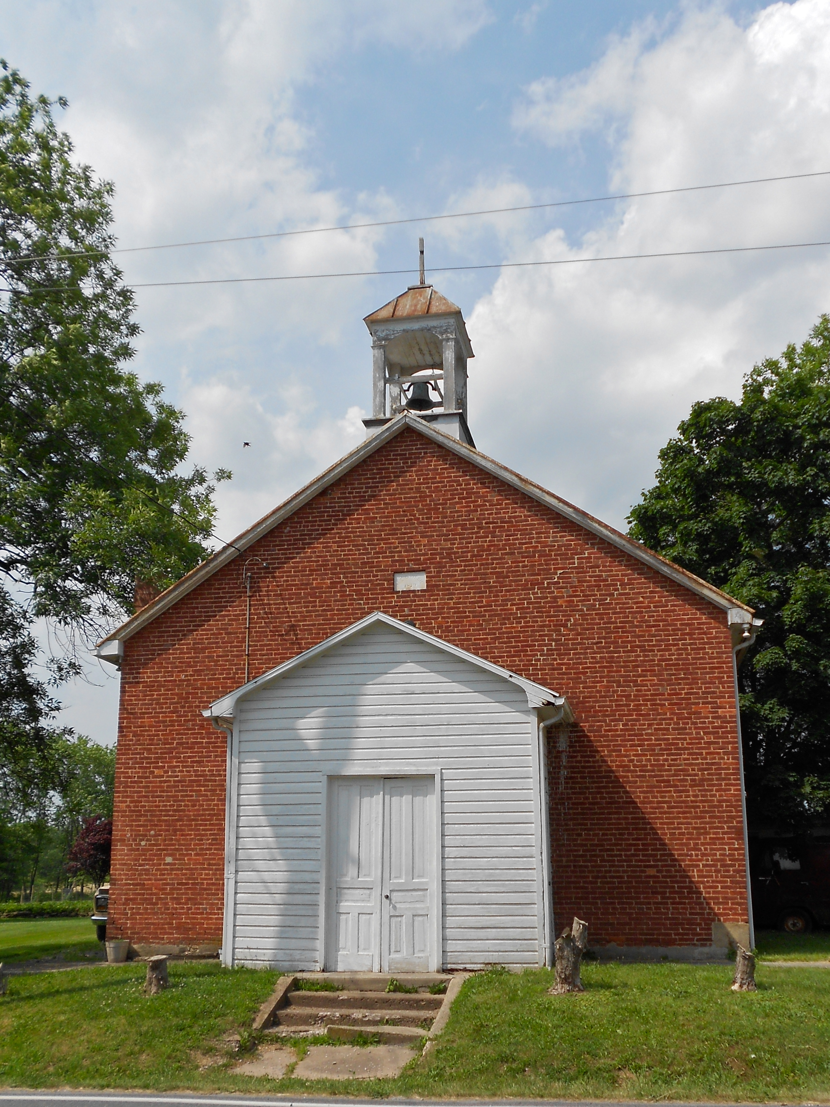 Hunterstown Historic District on Pennsylvania Route 394 and Granite Station Road, in Hunterstown, Straban Township, Adams County, Pennsylvania Area: 60 acres (24 ha) Architectural styles: Other, Early 19th-century vernacular Added to NRHP: May 15, 1979